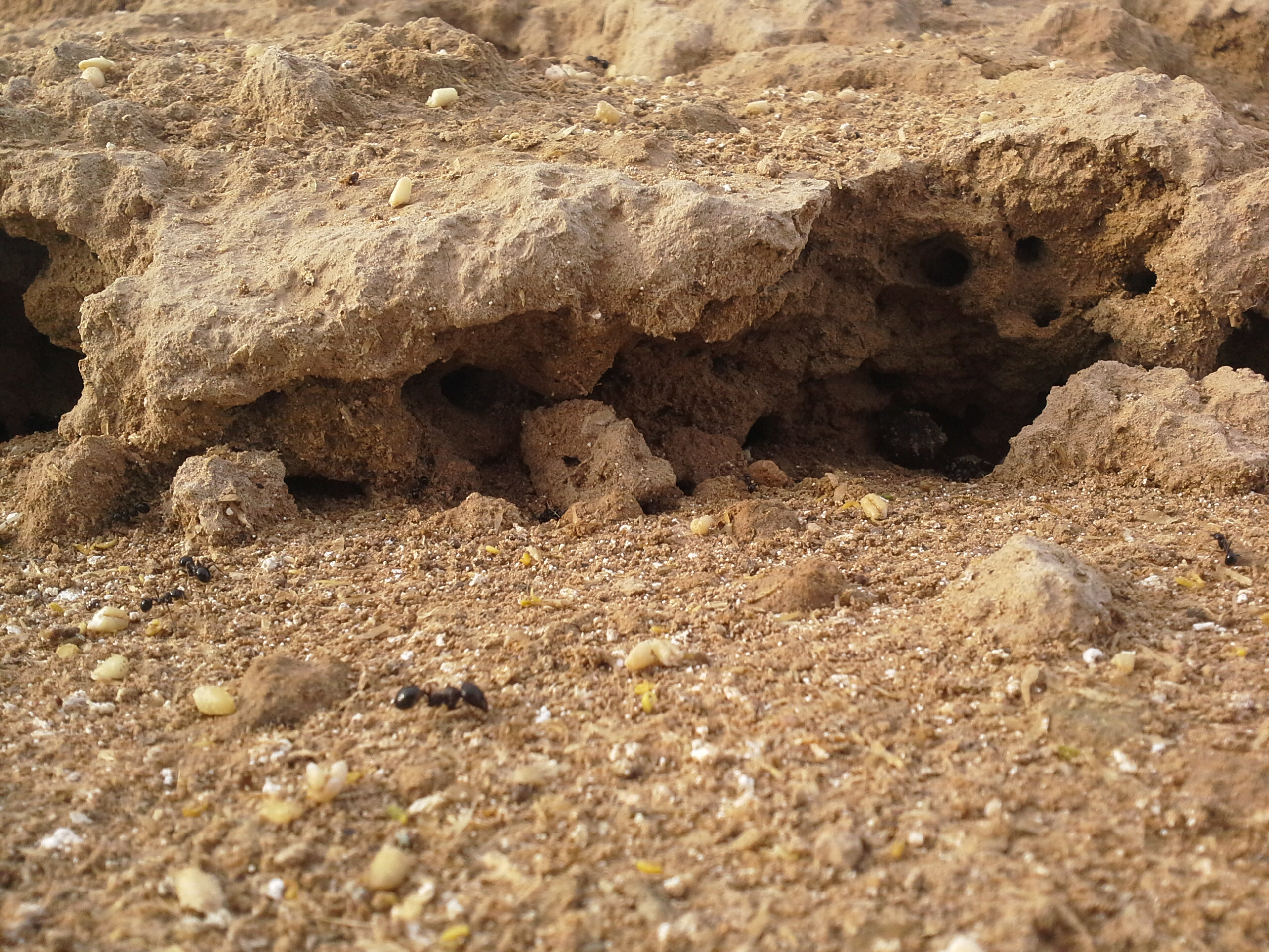 Ant's house in Zoveyr-e Chari in Bawi County southwestern in Iran